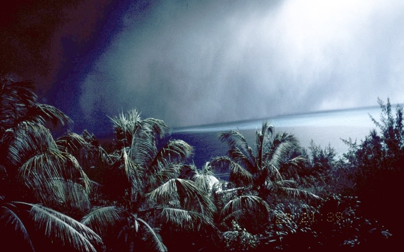 Minor ash fall following Soufriere Hills volcanic event in 1997